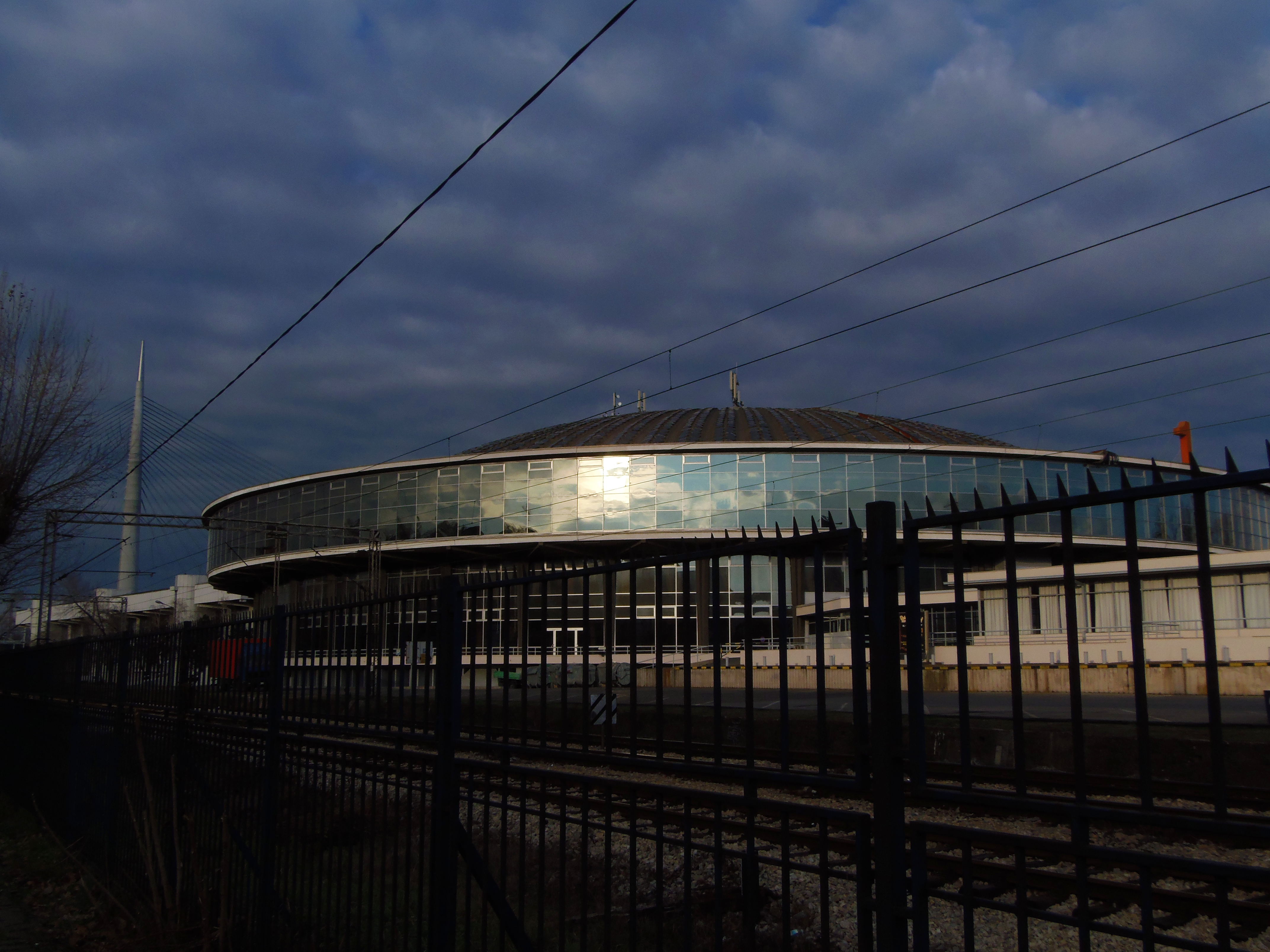 Sun reflection of a fair's hall.